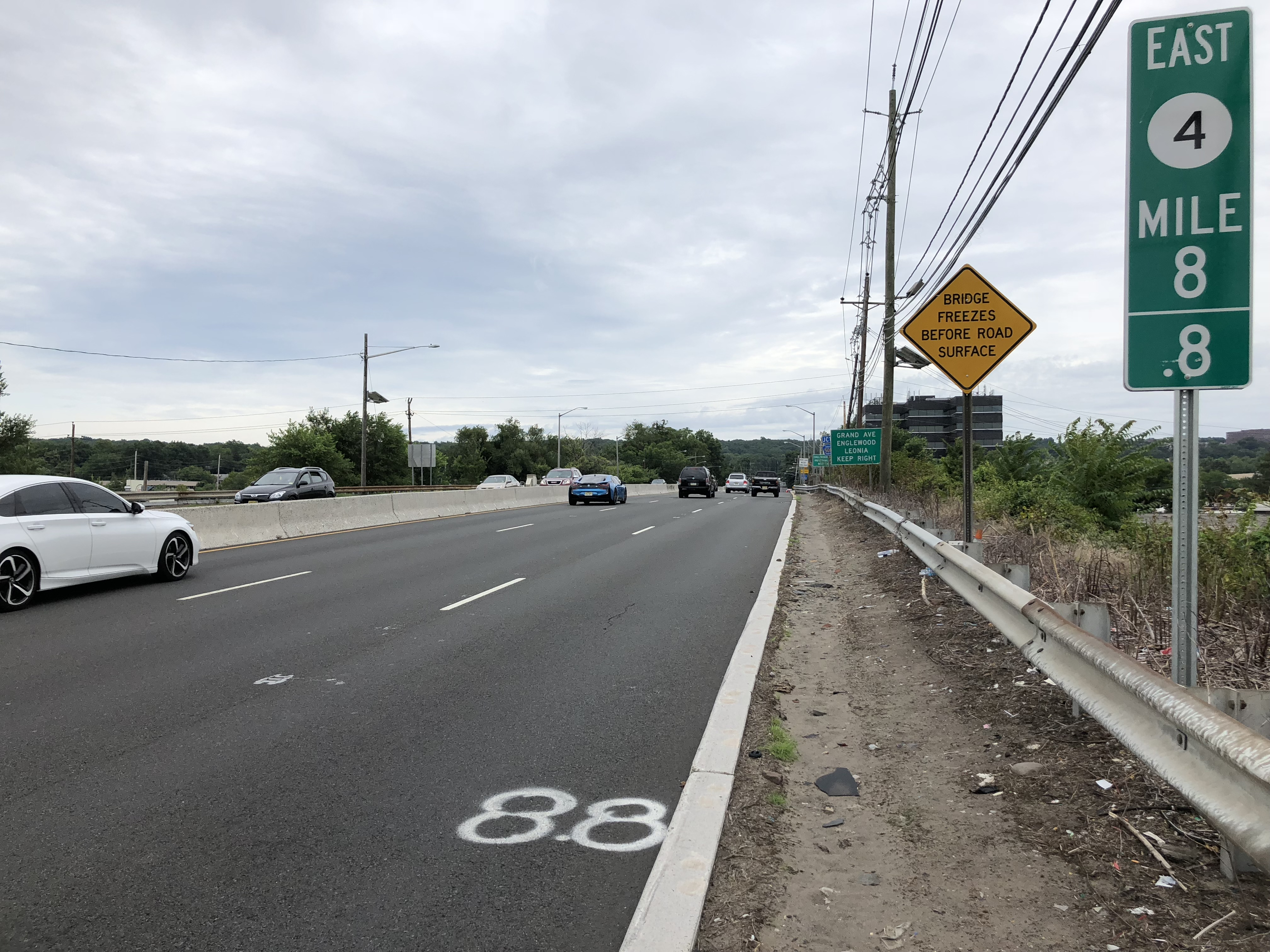 View east along New Jersey State Route 4 just west of the exit for New Jersey State Route 93 and Bergen County Route 501 (Grand Avenue) in Englewood, Bergen County, New Jersey